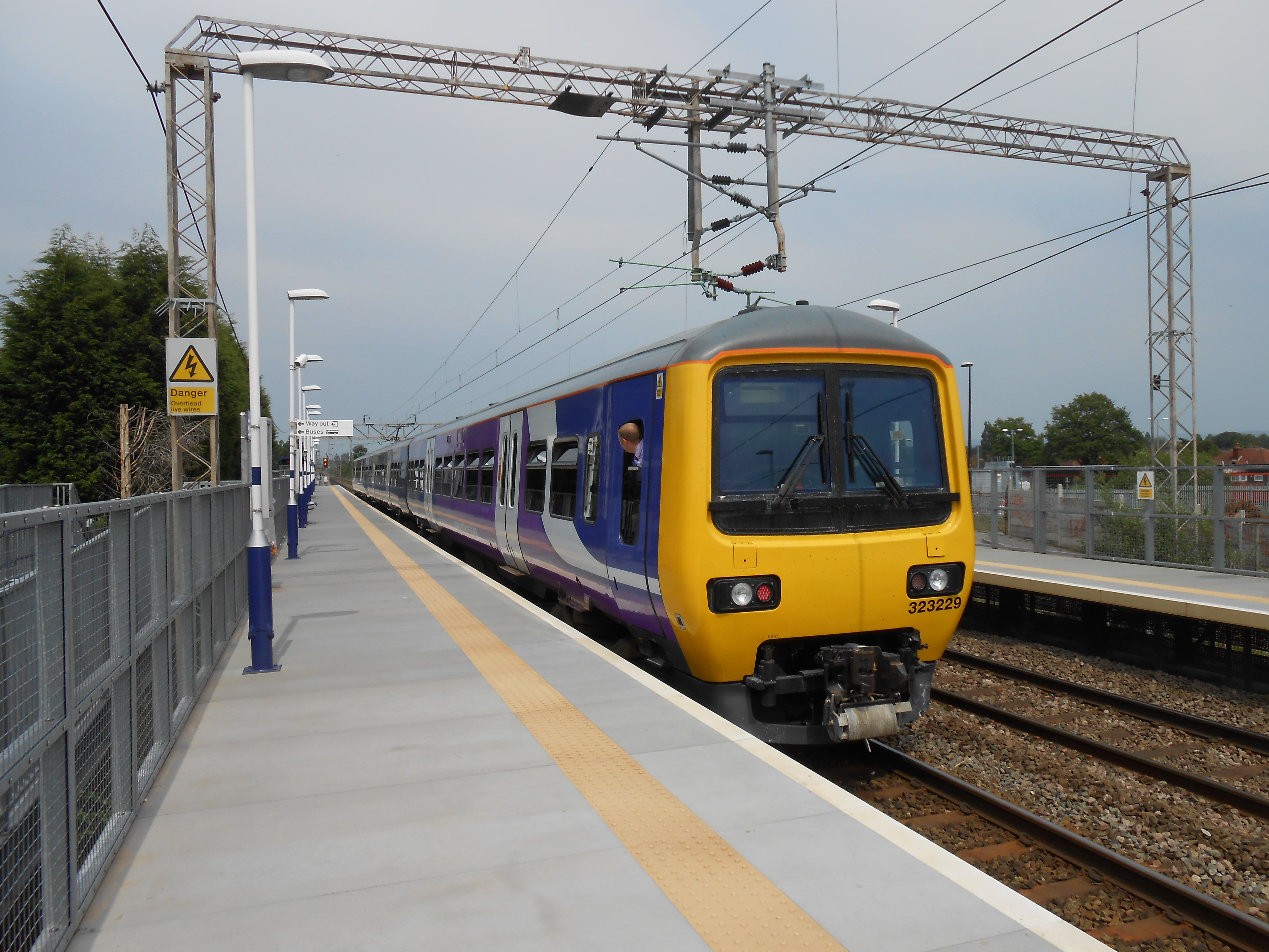 323229 taken at Mauldeth Road railway station, Manchester, England.